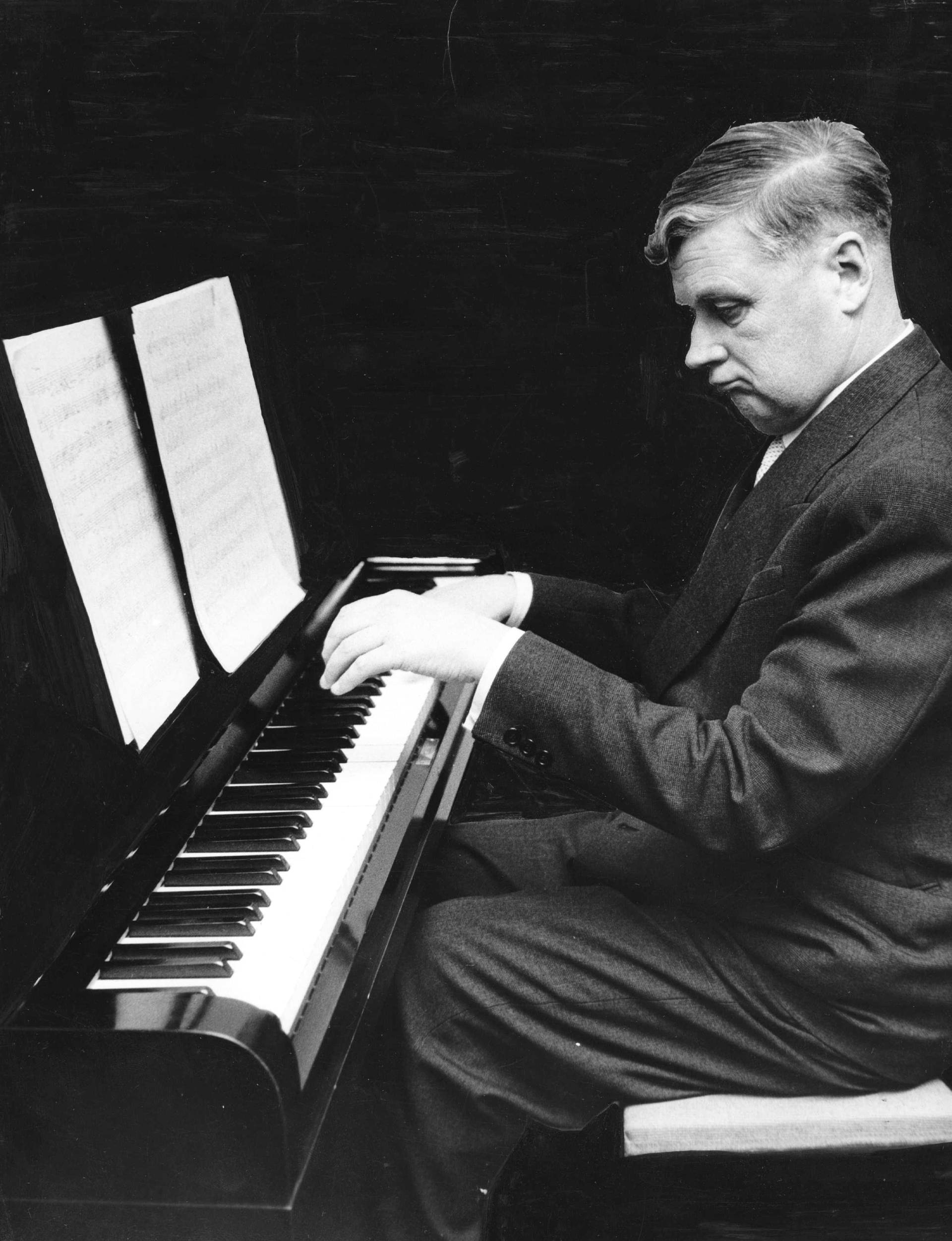 Uuno Klami was Finland's best known composer of classical music after Jean Sibelius.